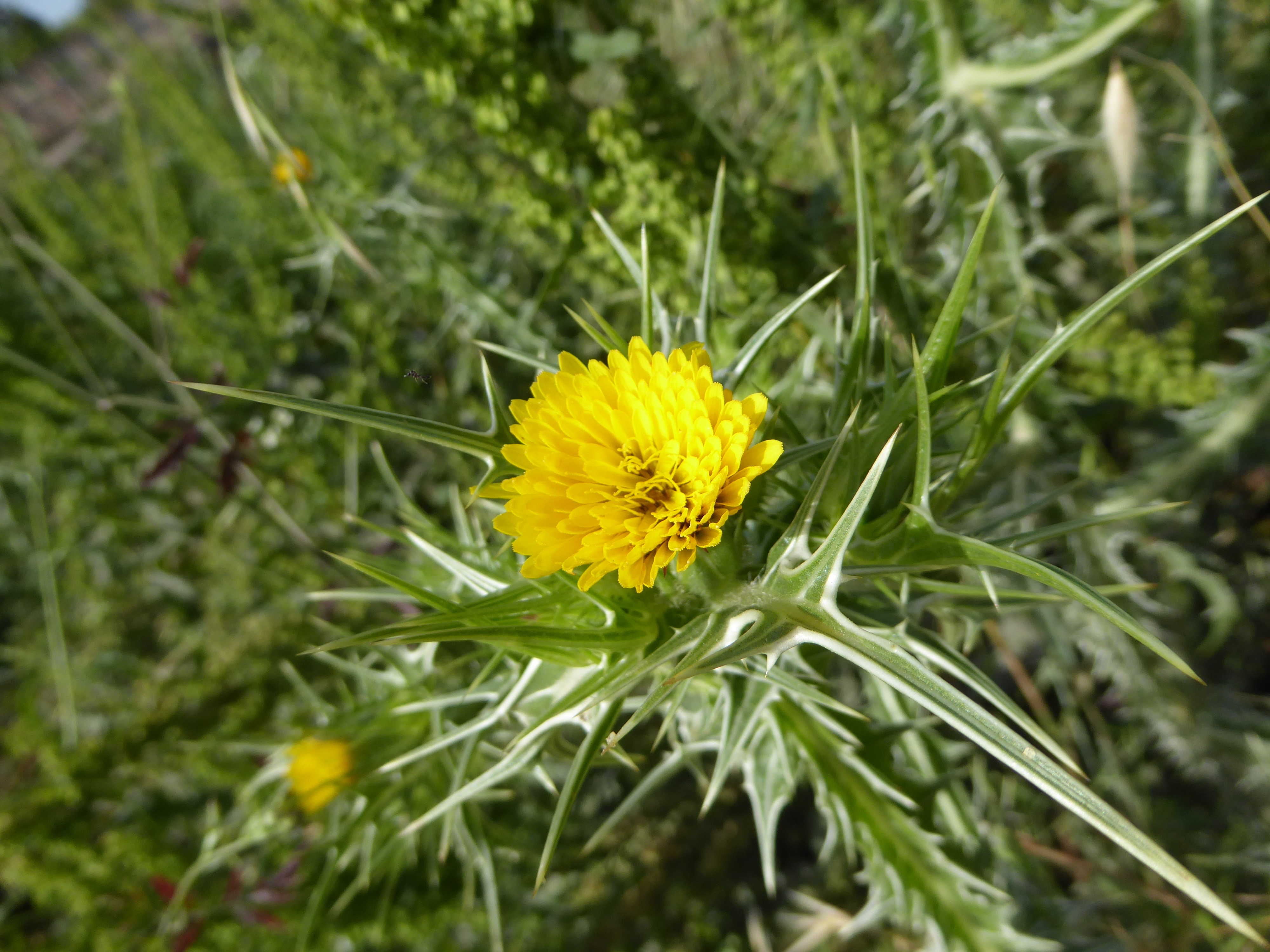 Alexander Stream